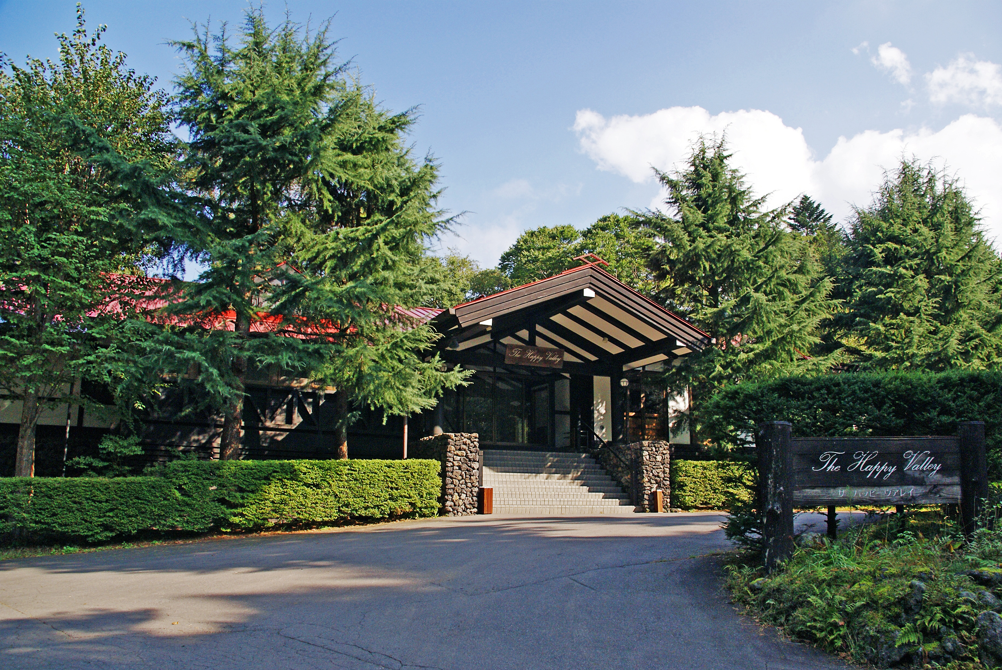 Manpei Hotel in Karuizawa, Nagano prefecture, Japan